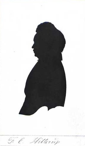 Frederik Christian Hillerup (1793-1861), Danish writer